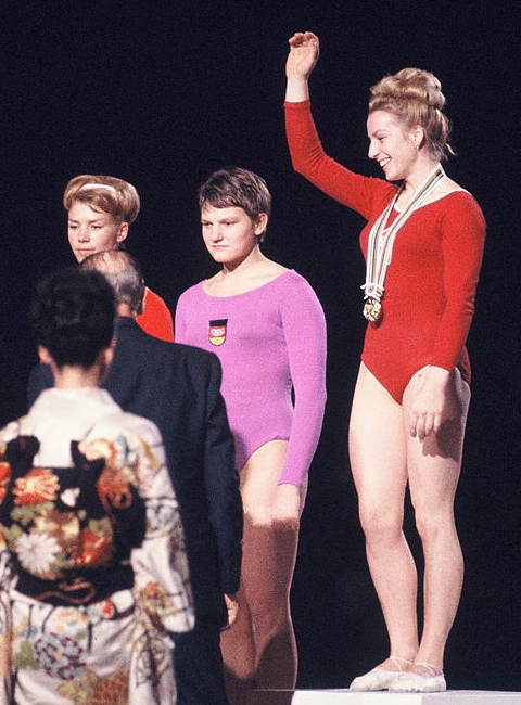 Gold Medalist Vera Caslavska (R) of Czechoslovakia, Silver Medalists Larysa Latynina (L) of Soviet Union and Birgit Radochla (C) of Germany on the podium during Women's Horse Vault medal ceremony of the Artistic Gymnastics during the Tokyo Olympics at Tokyo Metropolitan Gymnasium on October 22, 1964 in Tokyo, Japan.